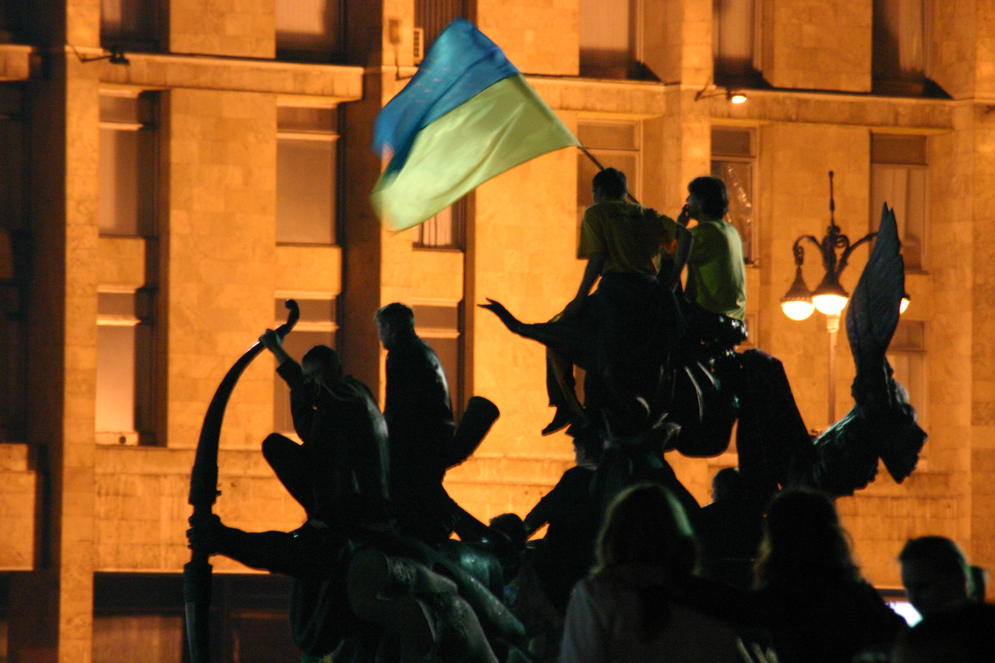 Eurovision Song Contest Kiev, People at Concert on Maidan Nezaleshnosty.